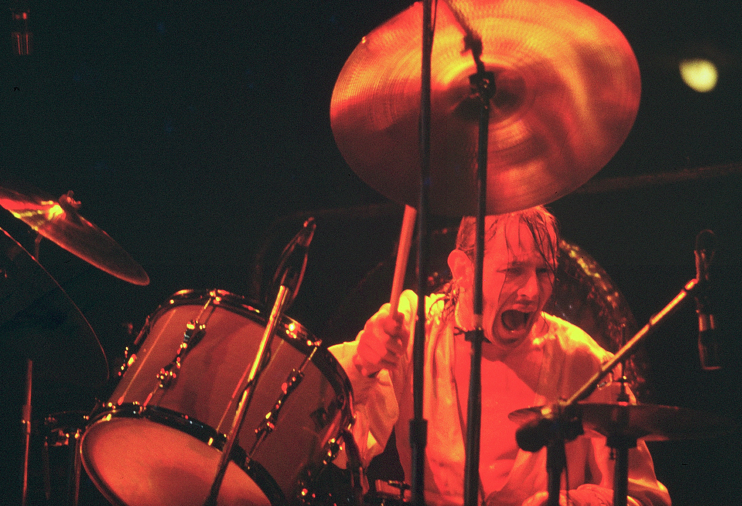 Simon Kirke, British rock drummer for the bands Free and Bad Company